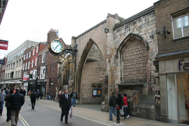 Coney Street Ancient thoroughfare in York with Roman origins, on the right are the remains of St.Martin-le-Grand church, severely damaged by a German bomb in 1942, partially rebuilt and restored in 1961 by G.G.Pace